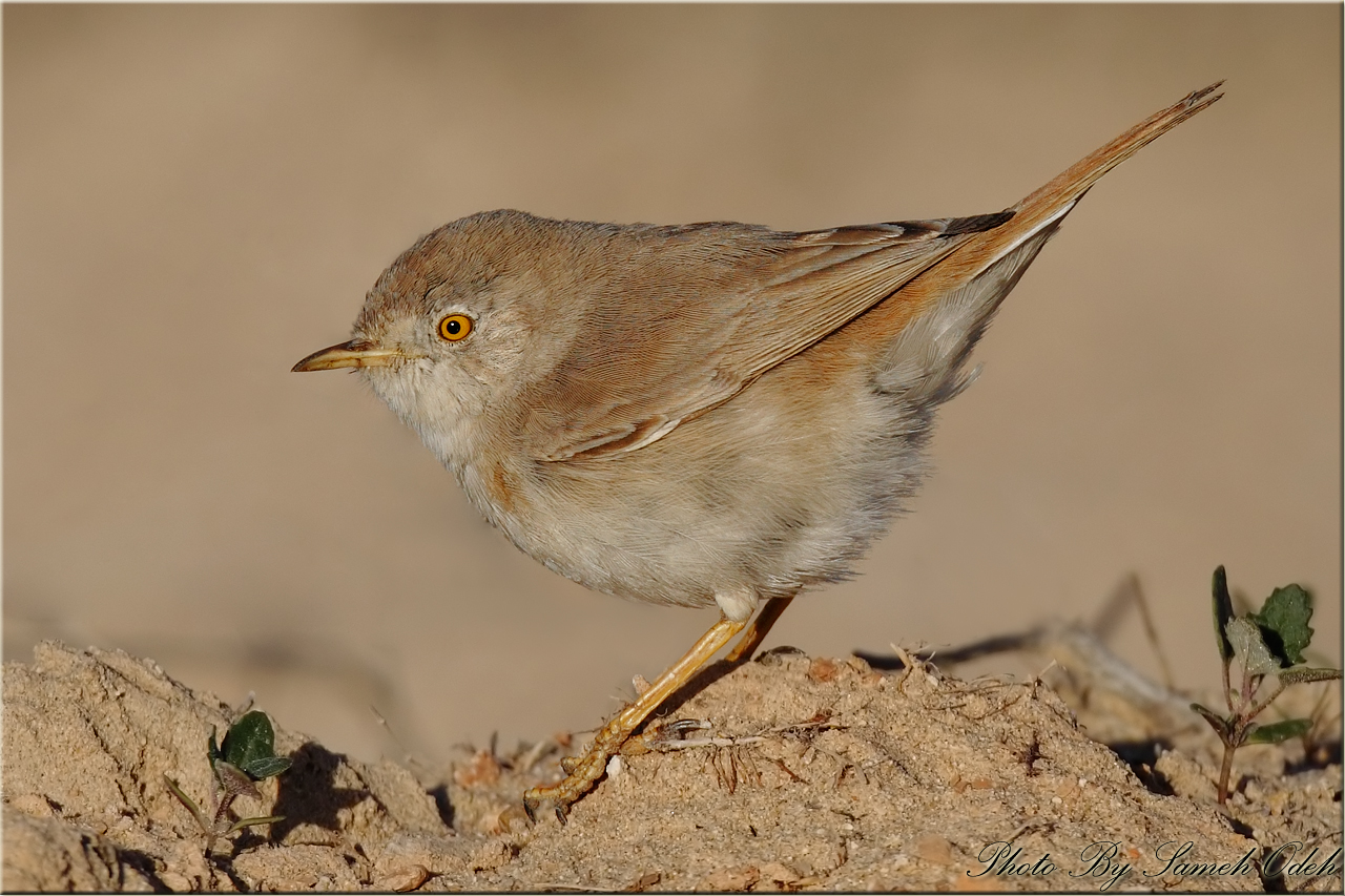 Asian Desert Wrabler (Sylvia nana)